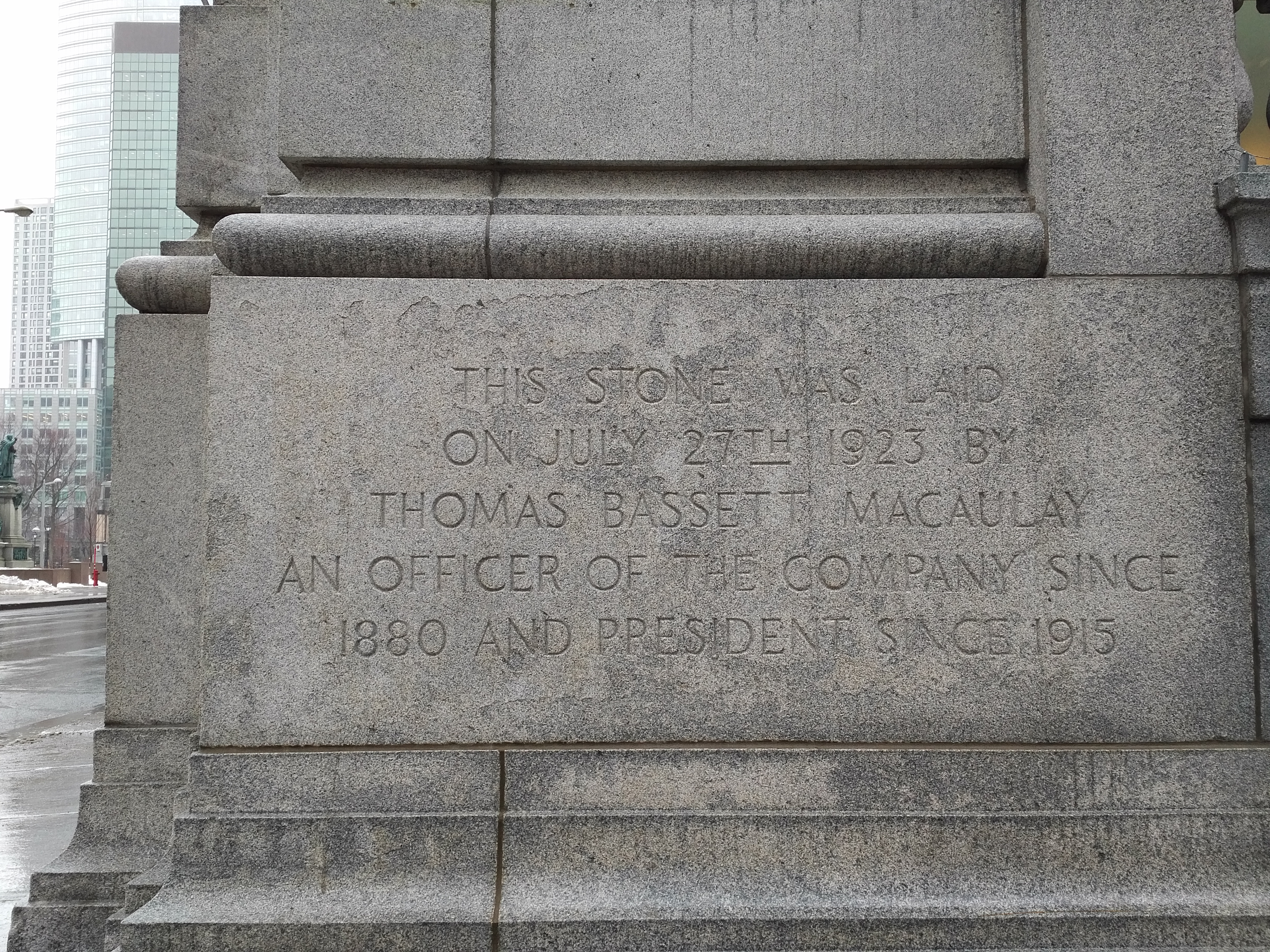 Commerative corner stone of the Sun Life building in Montreal. "THIS STONE WAS LAID ON JULY 27TH 1923 BY THOMAS BASSETT MACAULEY, AN OFFICER OF THE COMPANY SINCE 1880 AND PRESIDENT SINCE 1915".